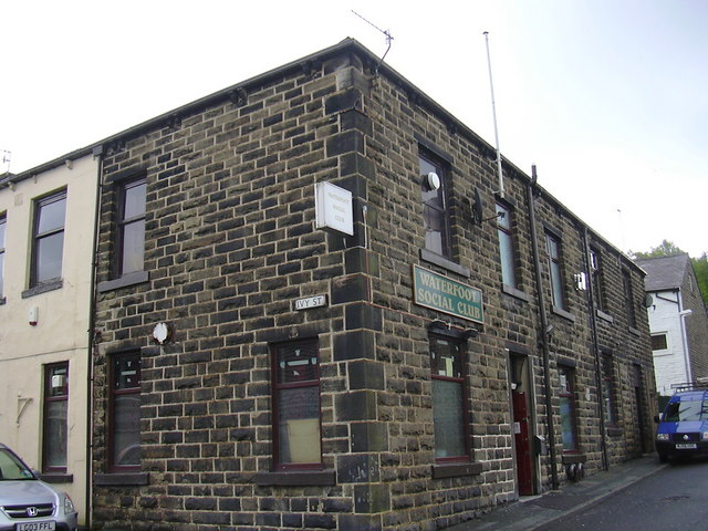 Waterfoot Social Club This used to be Waterfoot Working Men's Club